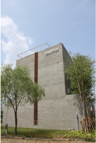 A side view of JenniferSoft HQ in south korea